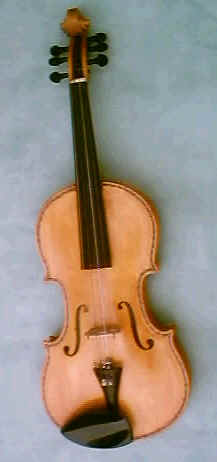 Swedish latfiol (violin with sympathetic strings), by English luthier Michael King